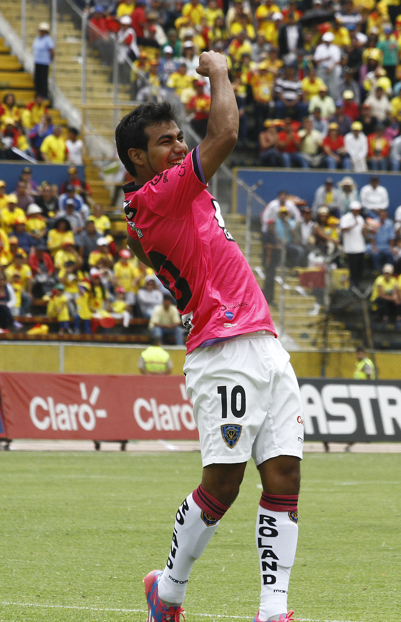 Junior Sornoza playing for Independiente del Valle in November 2014